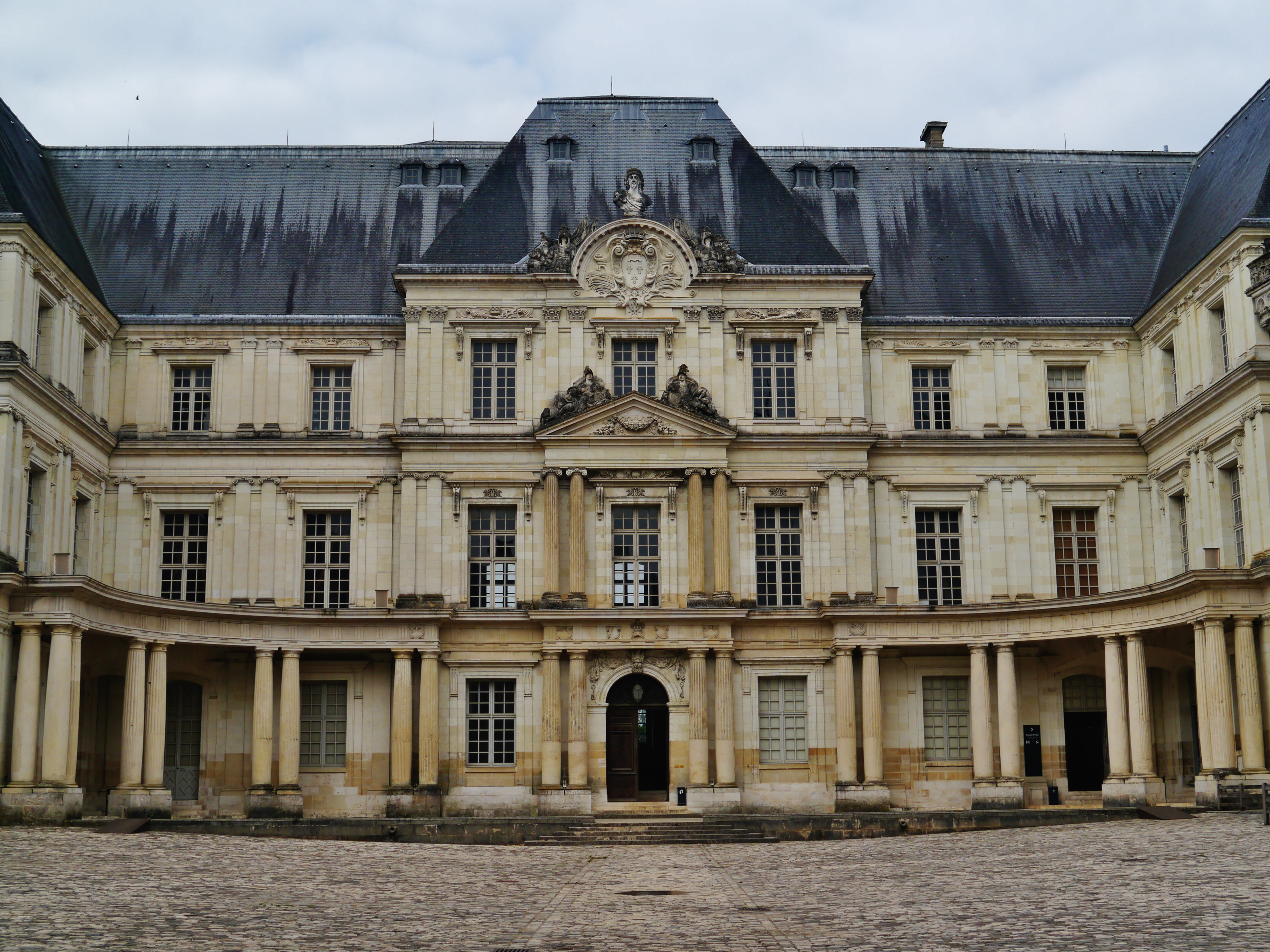 Exterior of the Francis I Wing/Loge Facade of Blois Palace, Blois, Department of Loir-et-Cher, Region of Centre-Loire Valley, France